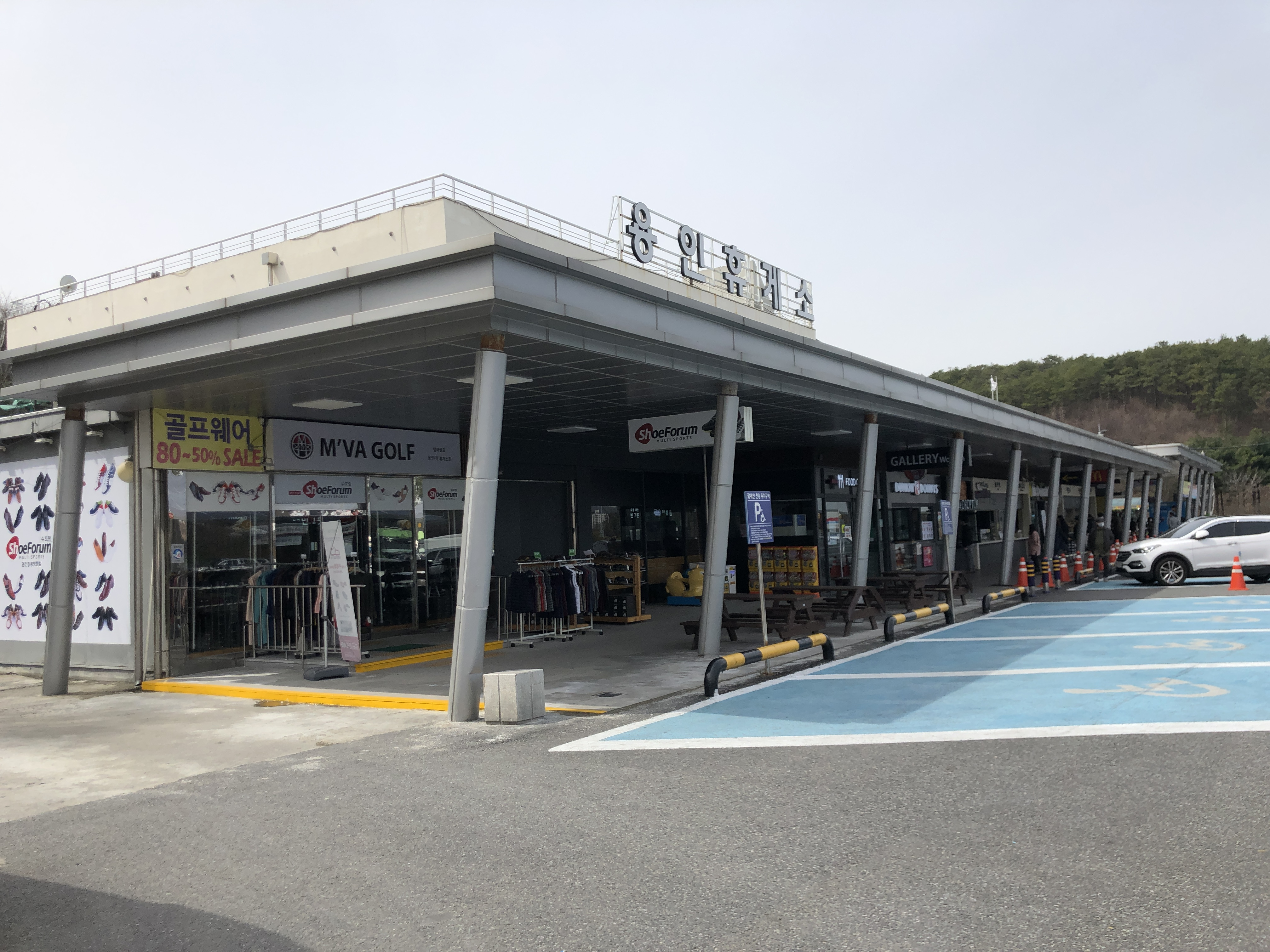 Yongin Rest Area